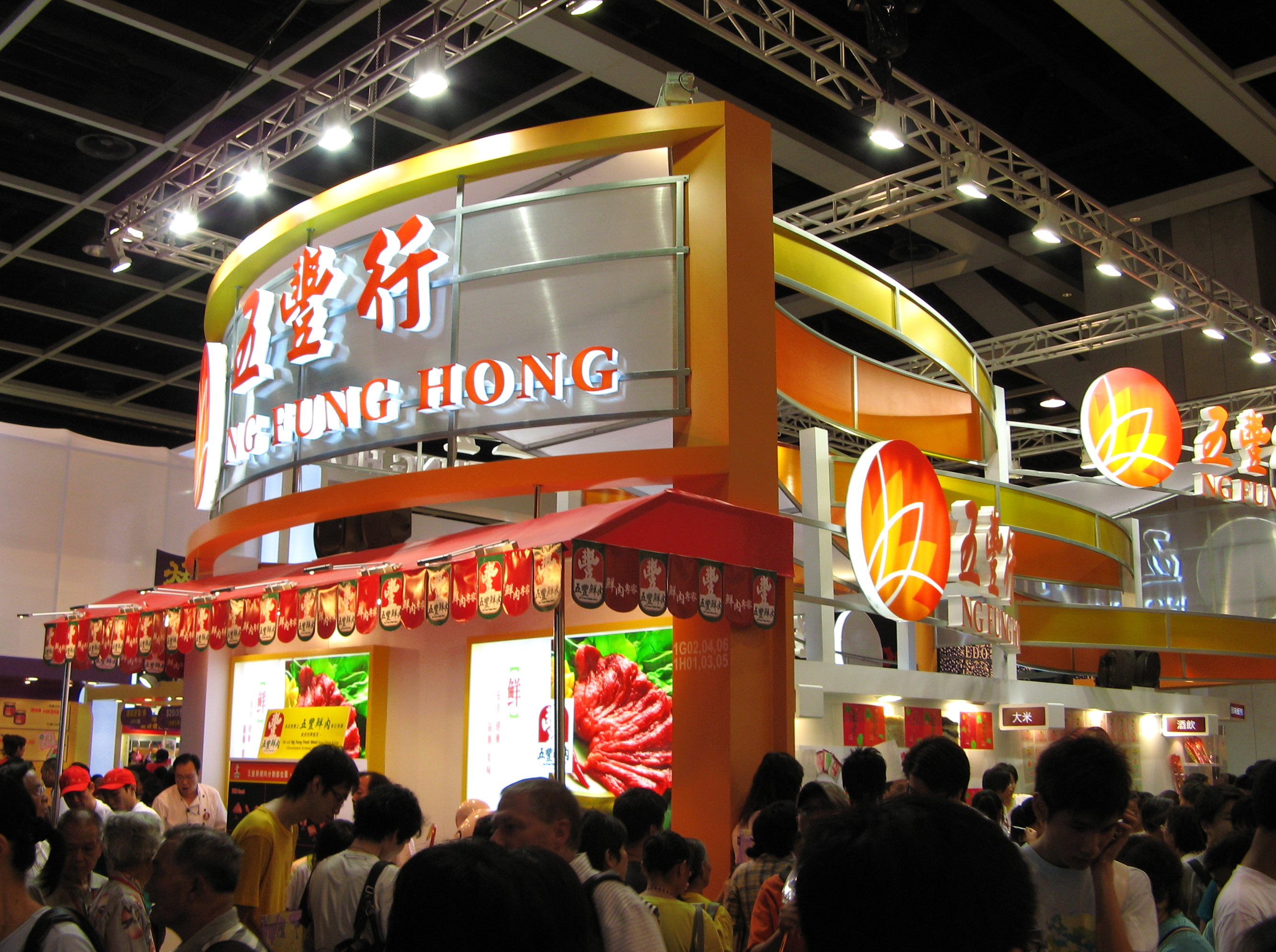 2007 Hong Kong Trade Development Council (HKTDC) Food Expo at the Hong Kong Convention and Exhibition Centre (HKCEC). Ng Fung Hong booth.